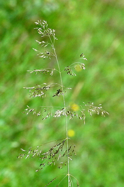 Picture taken in Commanster, Belgian High Ardennes . The factual accuracy of this description or the file name is disputed.Reason: Please see the relevant discussion on the talk page. Species: Deschampsia flexuosa